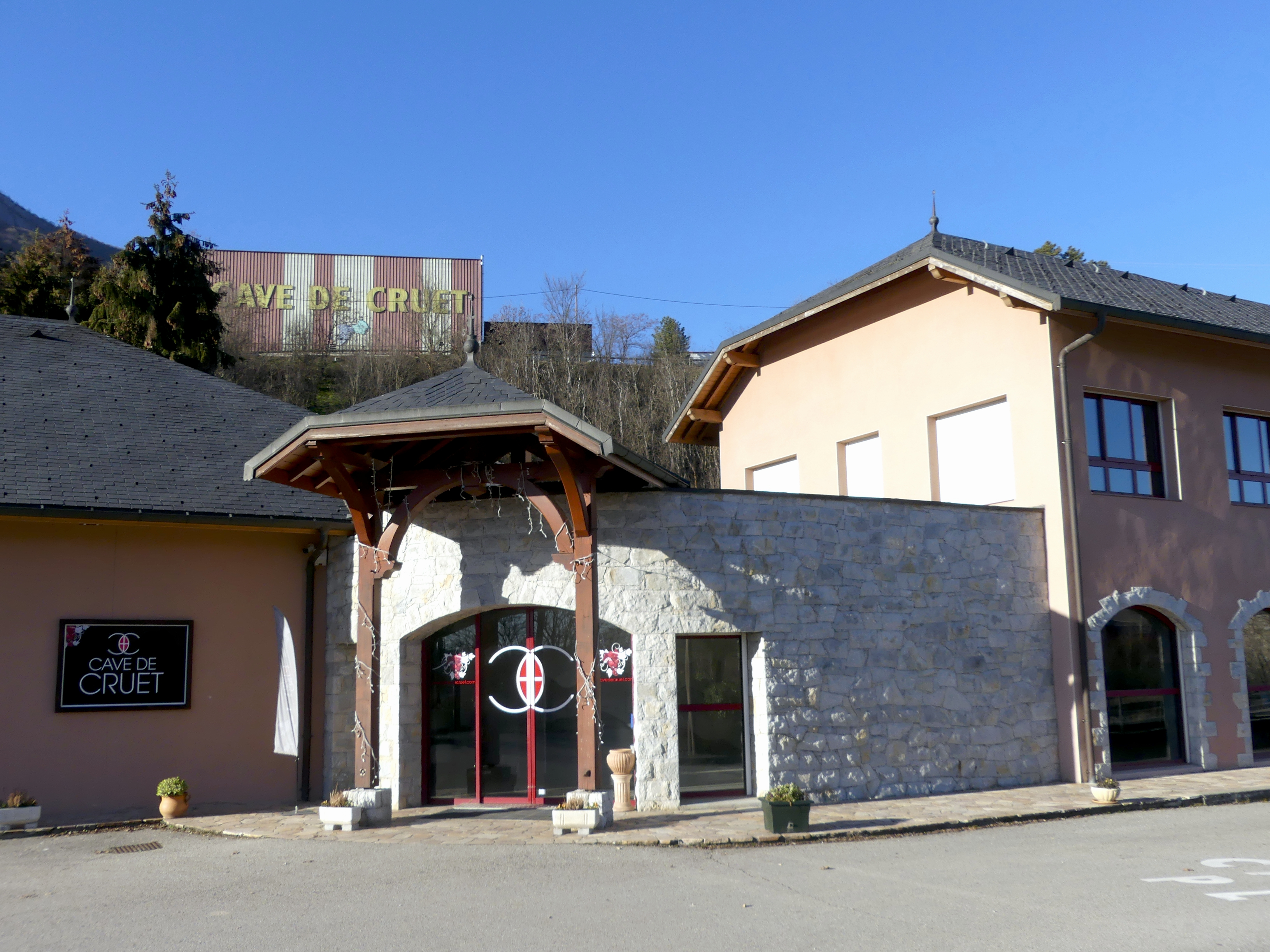 Sight of Cave de Cruet wine cellar, with the sales building ahead and the wine producing building up at the background, in Cruet, Savoie, France.